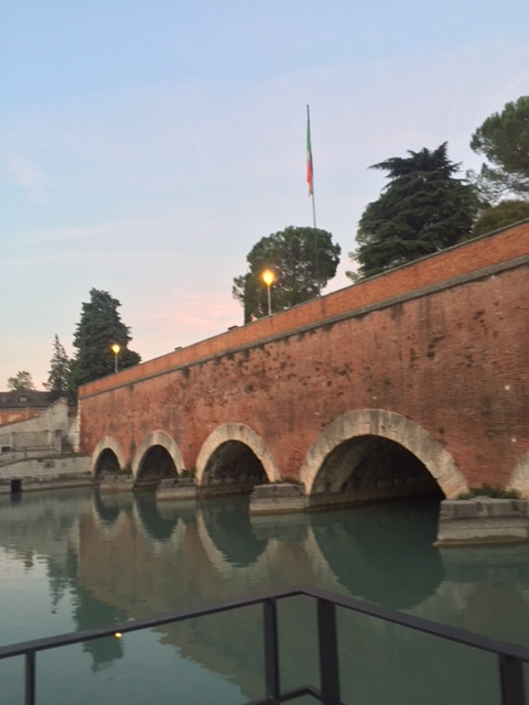 This is a photo of the bridge at the centre of Peschiera del Garda